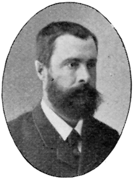 Image scanned from the book "Svenskt Porträttgalleri XX - Arkitekter, Bildhuggare, Målare m.fl. " ("Swedish Portrait Gallery XX - Architects, Sculptors, Painters, ") published 1901